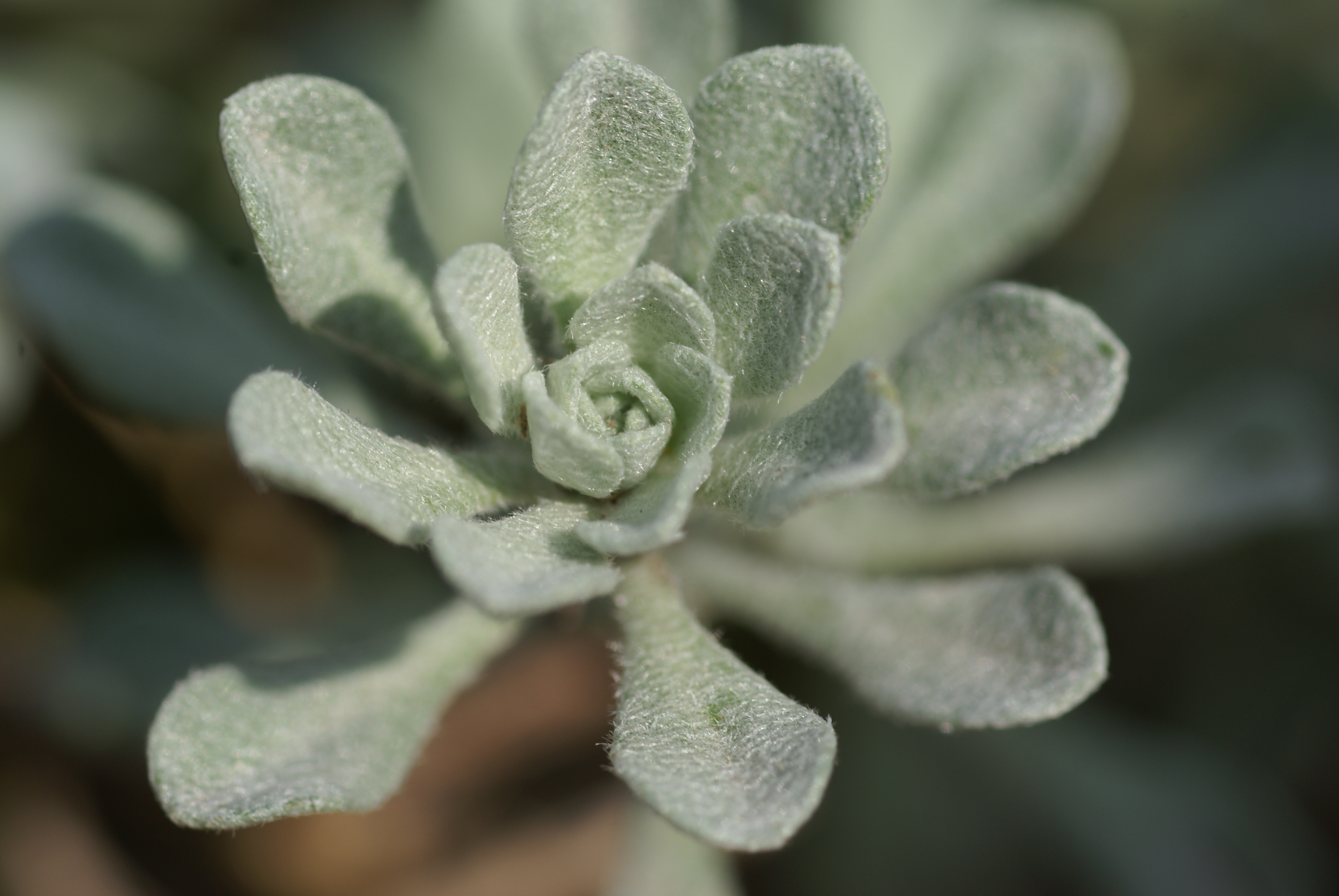 Plant species Alyssum borzaeanum